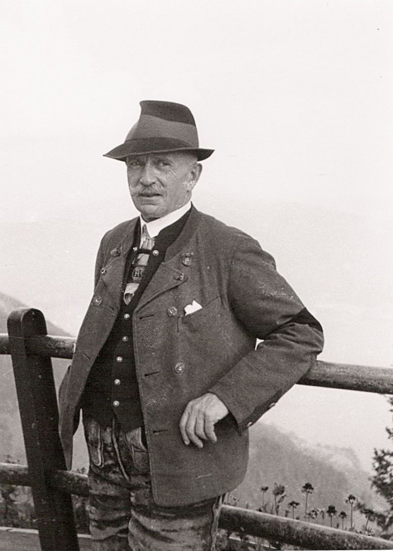 minister of justice, Austria, 1935